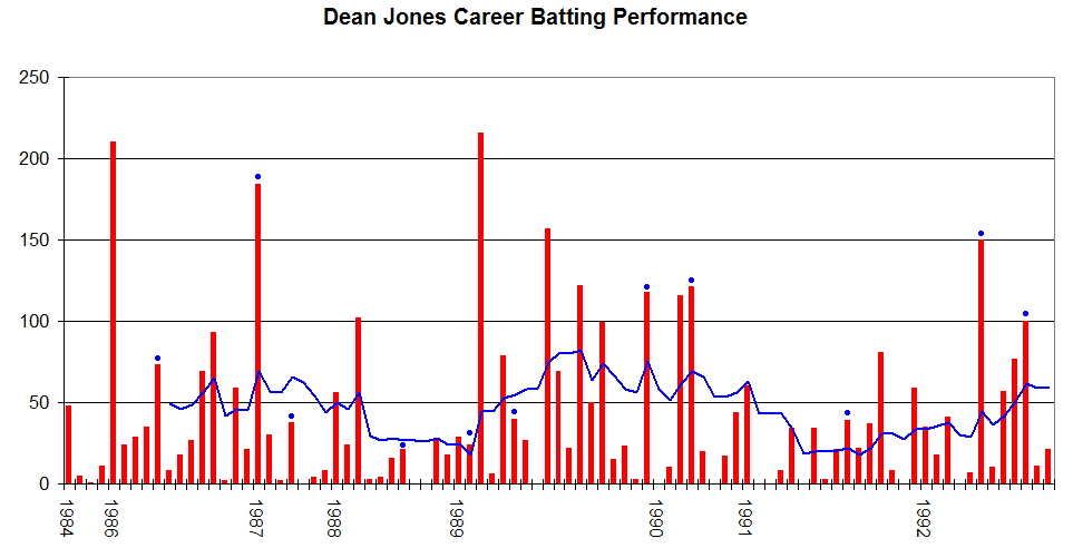 This graph details the Test Match performance of Dean Jones. It was created by Raven4x4x. The red bars indicate the player's test match innings, while the blue line shows the average of the ten most recent innings at that point. Note that this average cannot be calculated for the first nine innings. The blue dots indicate innings in which Jones finished not-out. This graph was generated with Microsoft Excel 2002, using data from Cricinfo and .au.